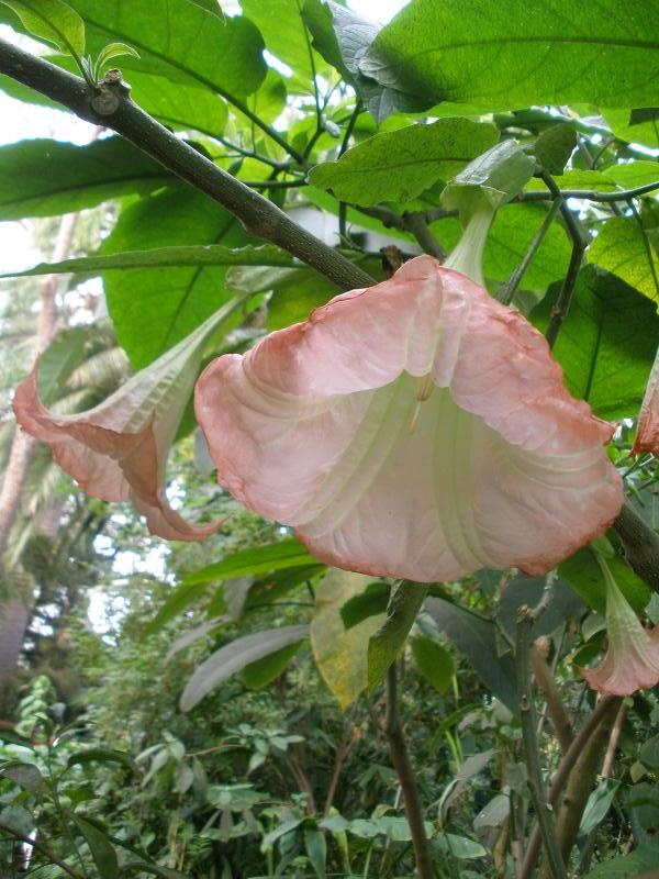 Brugmansia × candida 'Grand Marnier' flowers in Kew Gardens, England.